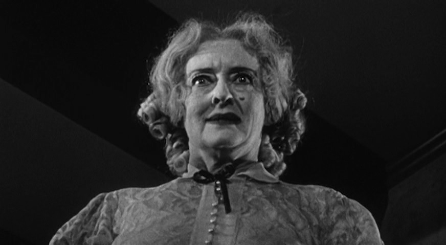 Screenshot taken from the original trailer for What Ever Happened to Baby Jane (1962), featuring Bette Davis